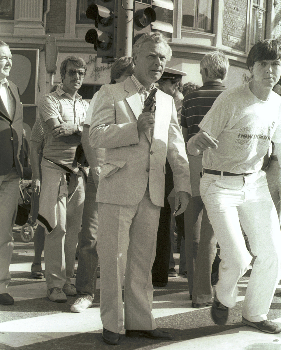 Prime minister of Denmark 1982-1993 Poul Schlüter - "Danish prime minister of the 1980´s taking matters into his own hands. His is best known for having said "nothing has been swept underneath the carpet". It wasn´t entirely true, something indeed was rotten in the state of Denmark."